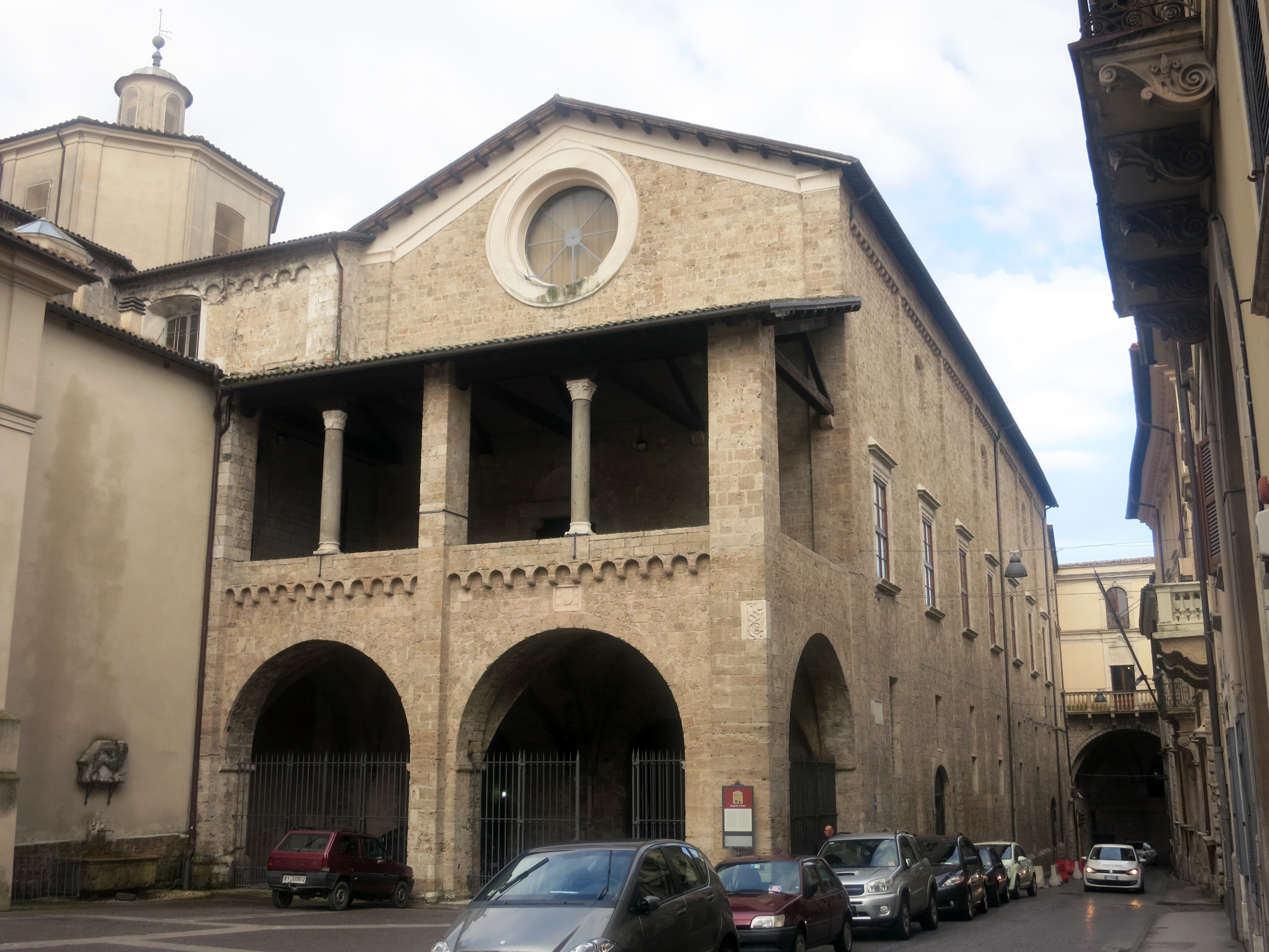 Exterior - Palazzo Vescovile (Rieti, Lazio, Italy)